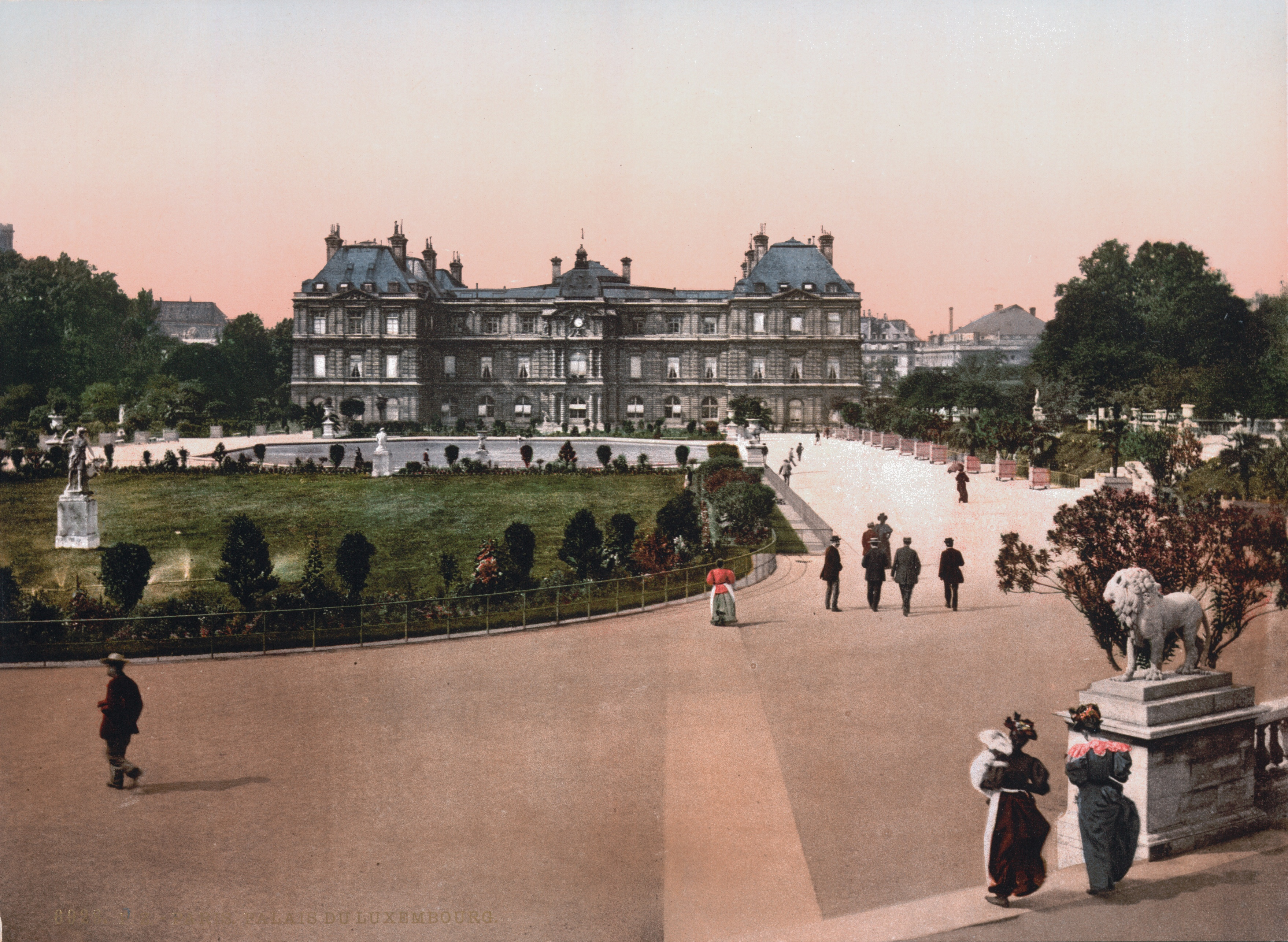 Palais du Luxembourg in Paris, France